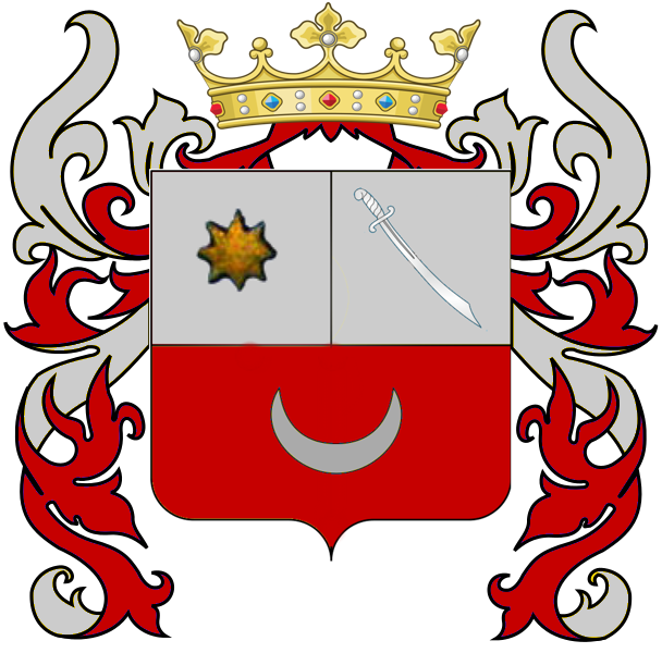 Arms of the Verderevsky noble family from the Armorial of A.T. Kniazev, 1785 (page 20). The coat-of-arms was found on the grave of lieutenant-general of the Russian Emperor's retinue Nikolay Ivanovich Verderevsky (d. 1812).